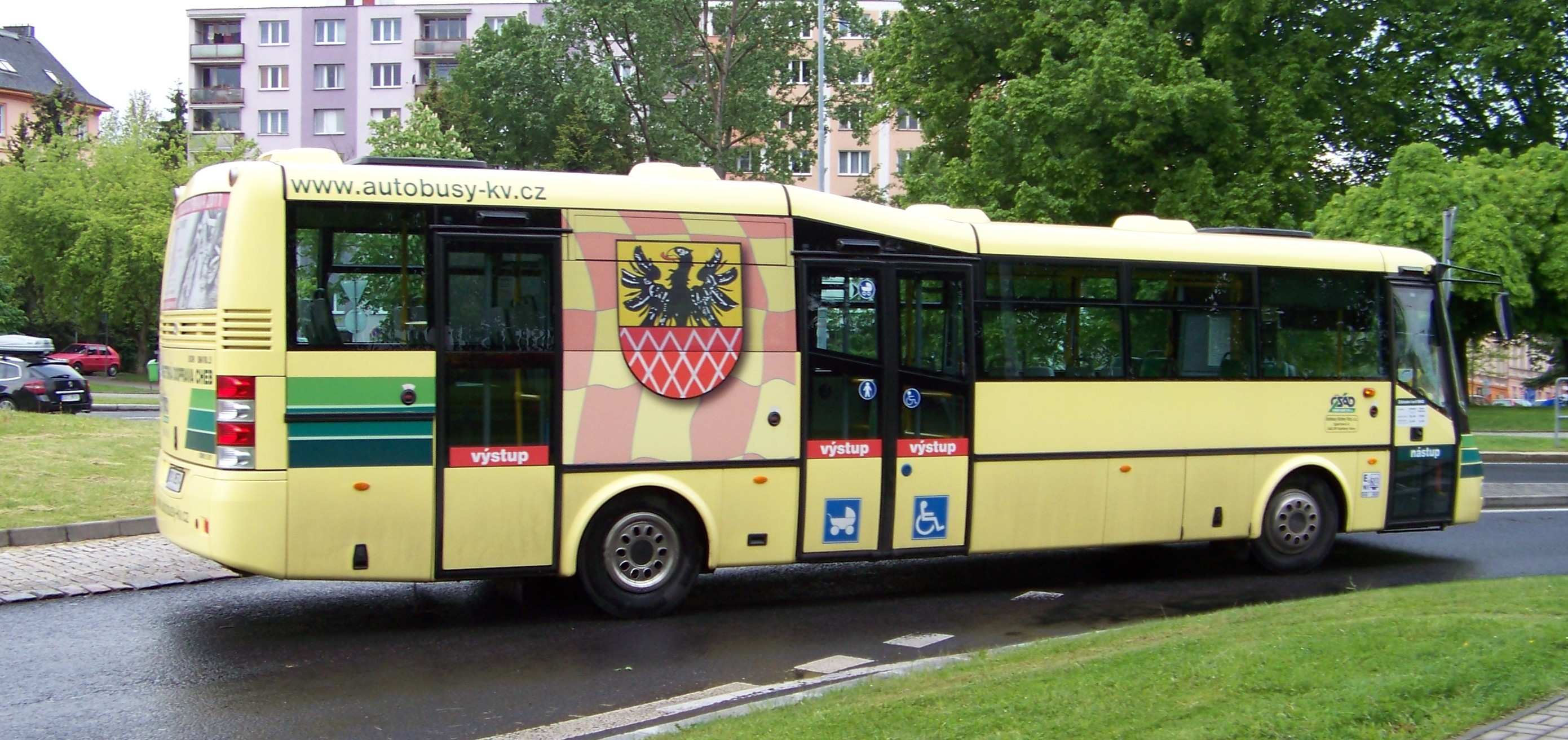 Cheb, Cheb District, Karlovy Region, the Czech Republic. Dr. Milada Horáková Square, a bus.